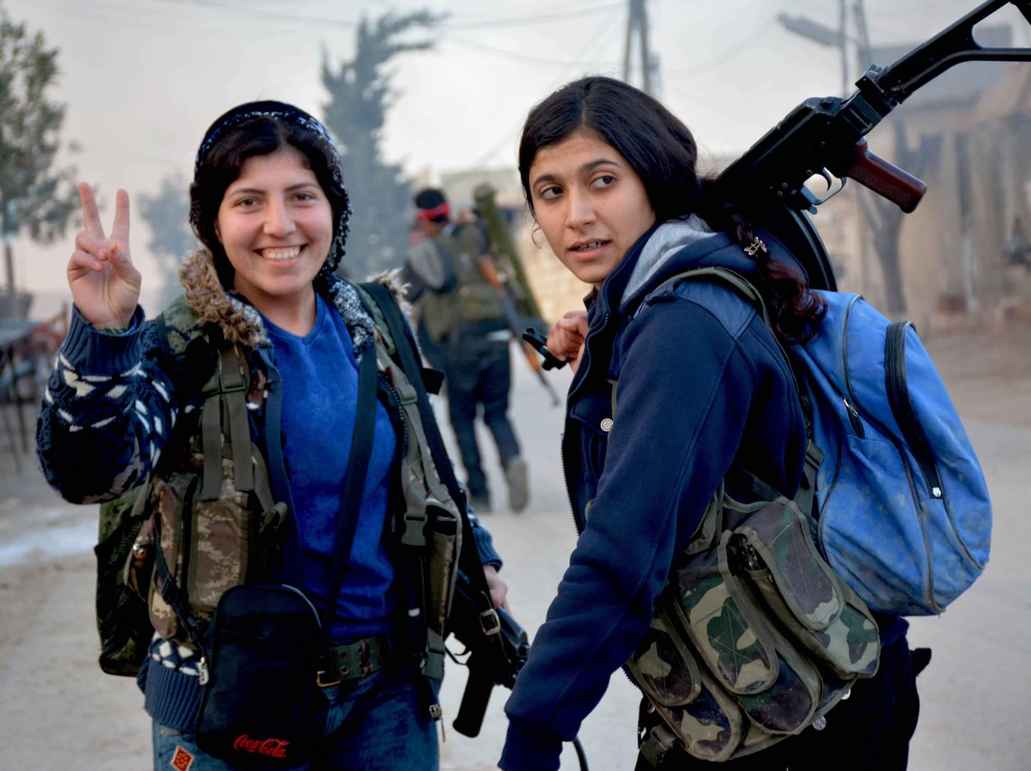 YPJ fighters during Operation Olive Branch.